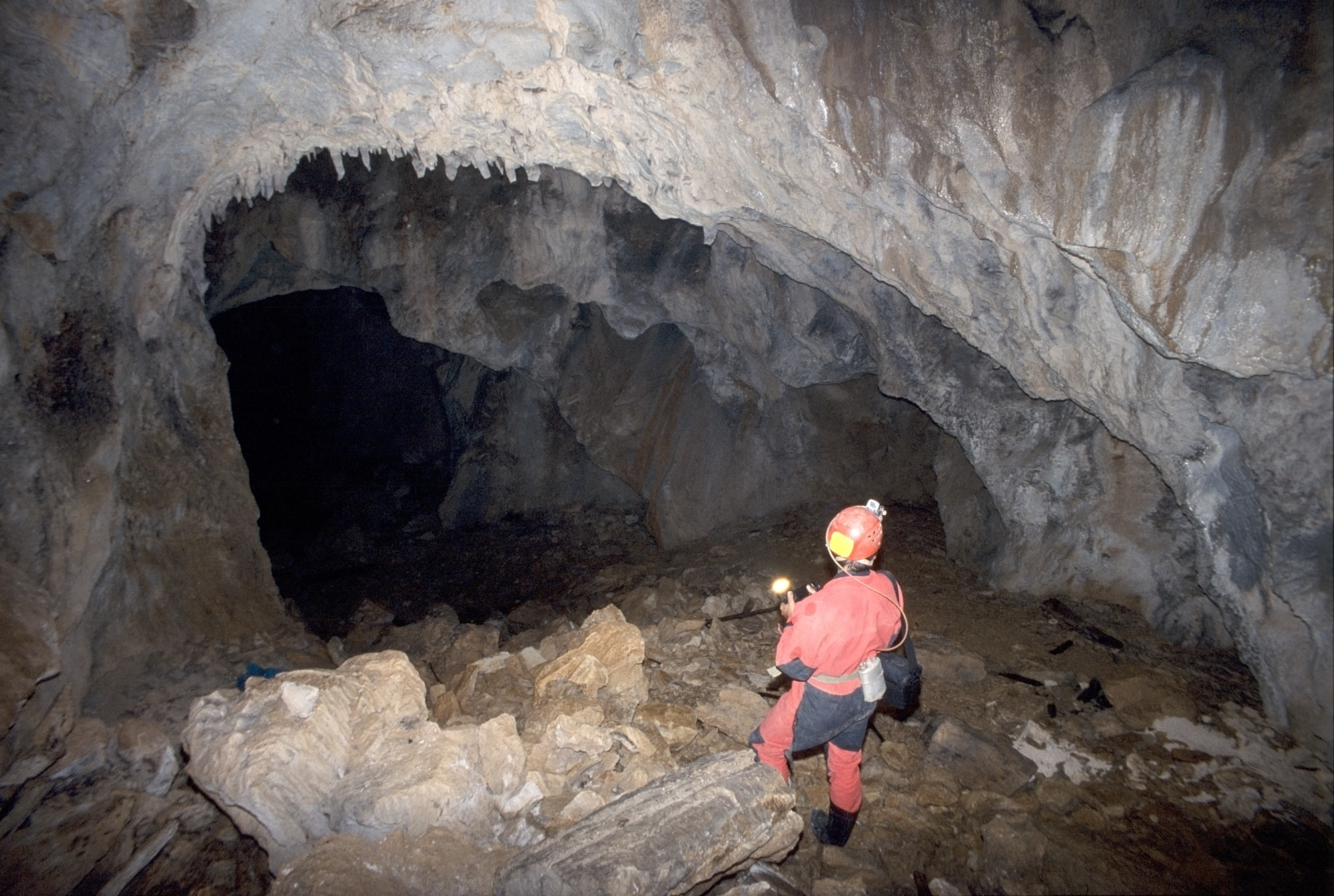 Inside of Zeicu cave, Retezat mnts, Romania